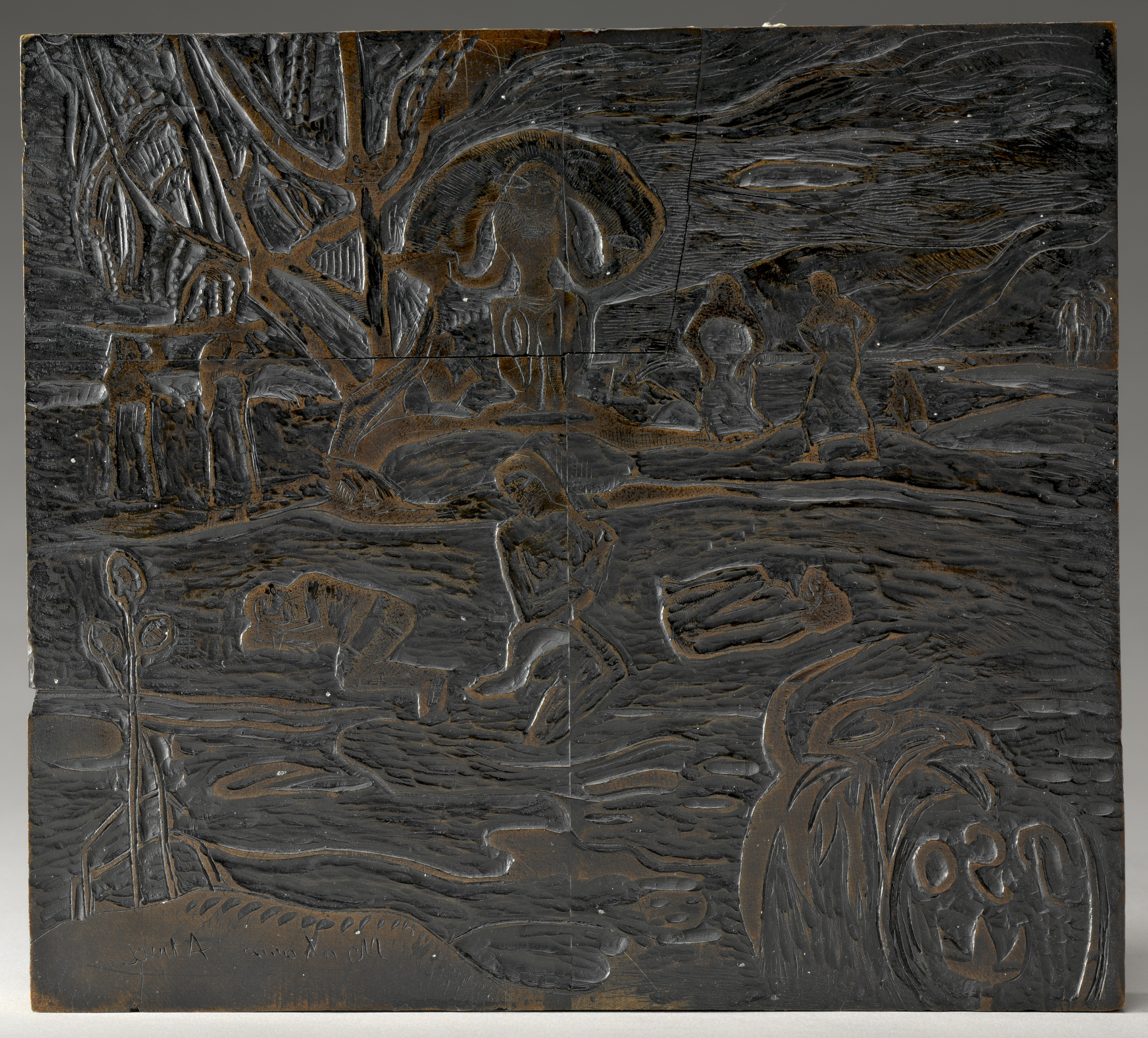 woodcut block